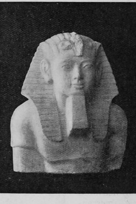 Upper half of statue of pharaoh Achoris. Reign of Achoris, 29th Dynasty, Late Period. Now in Cairo.